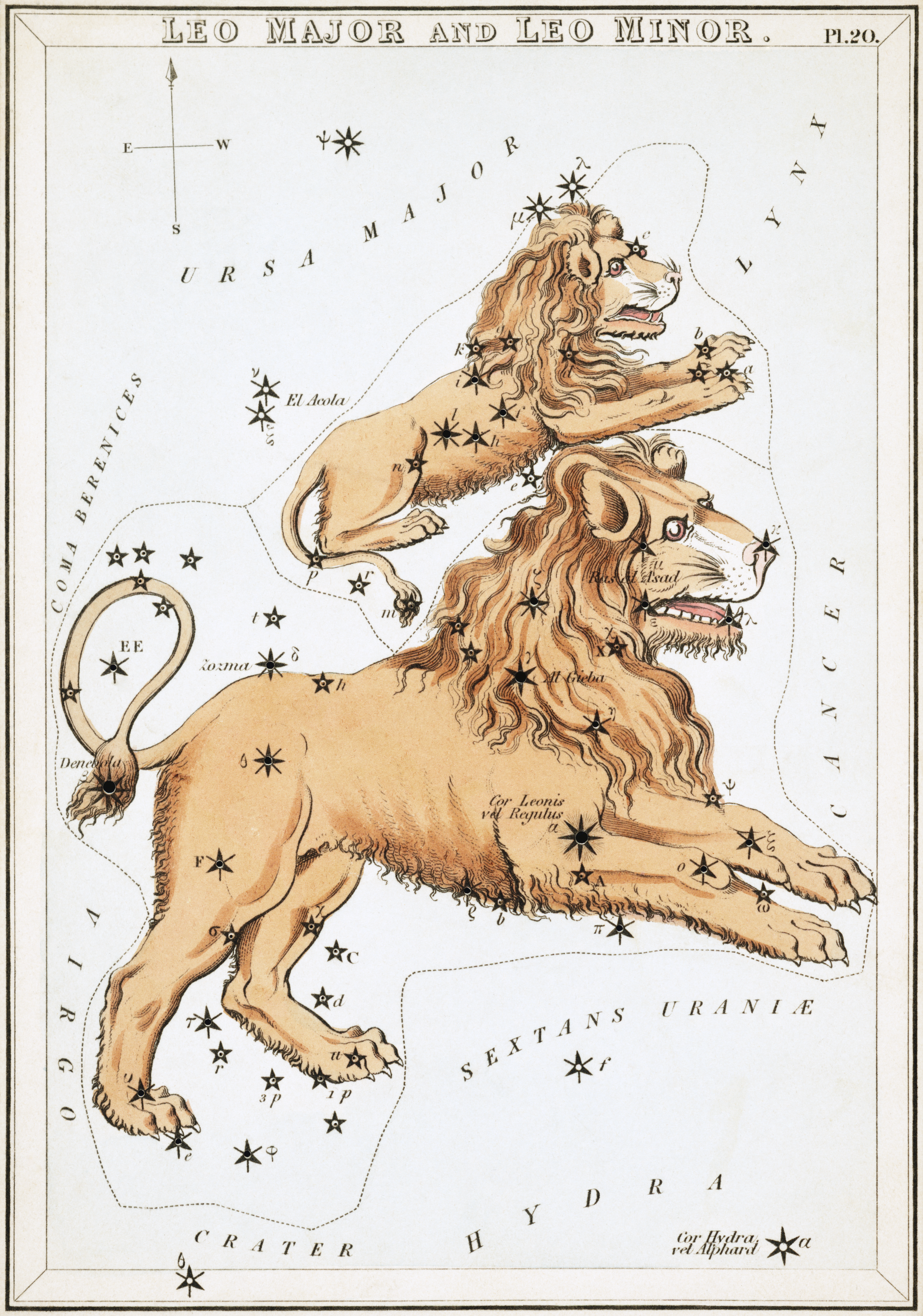 "Leo Major and Leo Minor", plate 20 in Urania's Mirror, a set of celestial cards accompanied by A familiar treatise on astronomy ... by Jehoshaphat Aspin. London. Astronomical chart, 1 print on layered paper board : etching, hand-colored.